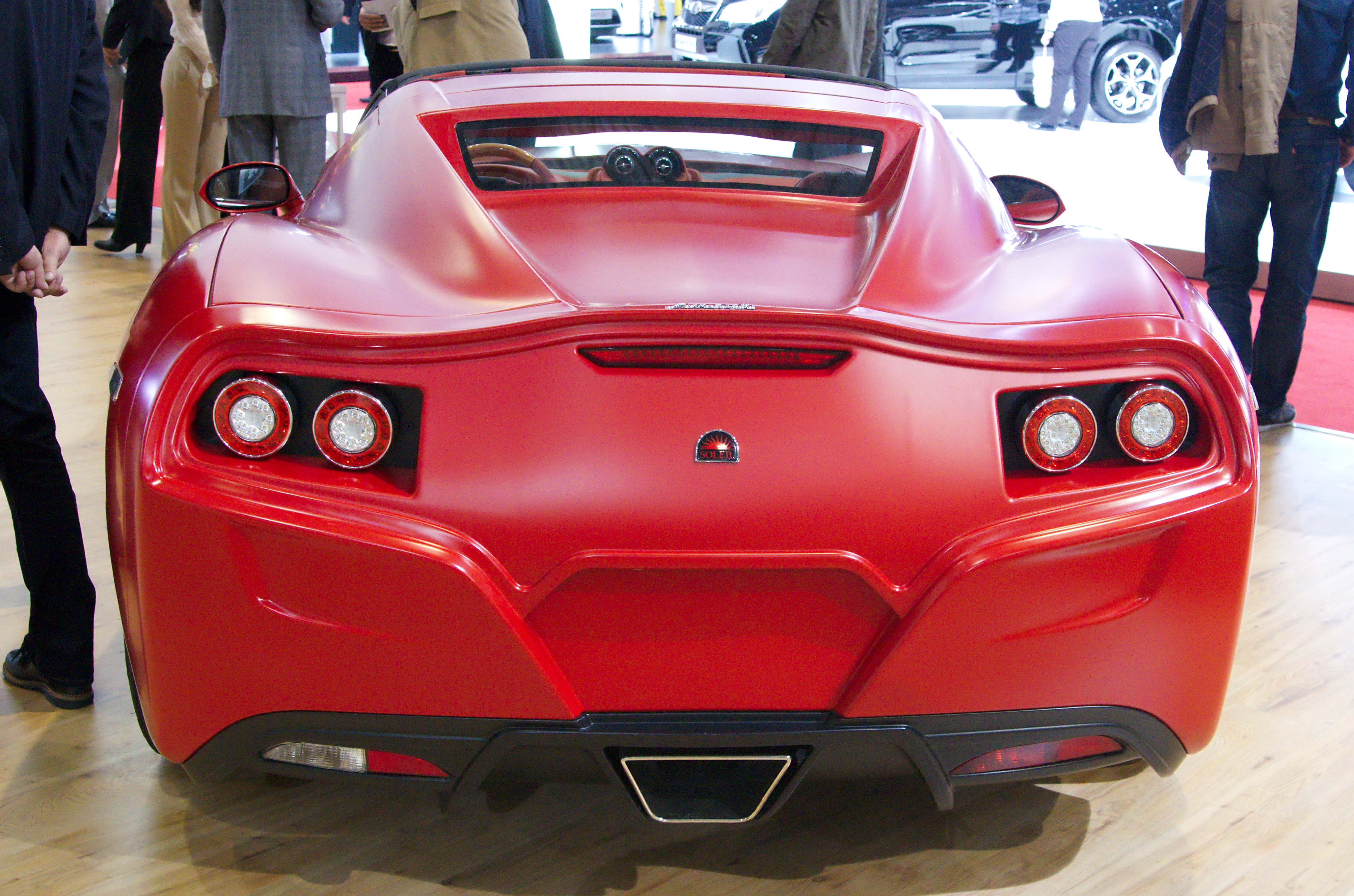 Geneva MotorShow 2013 - Soleil Anadi rear